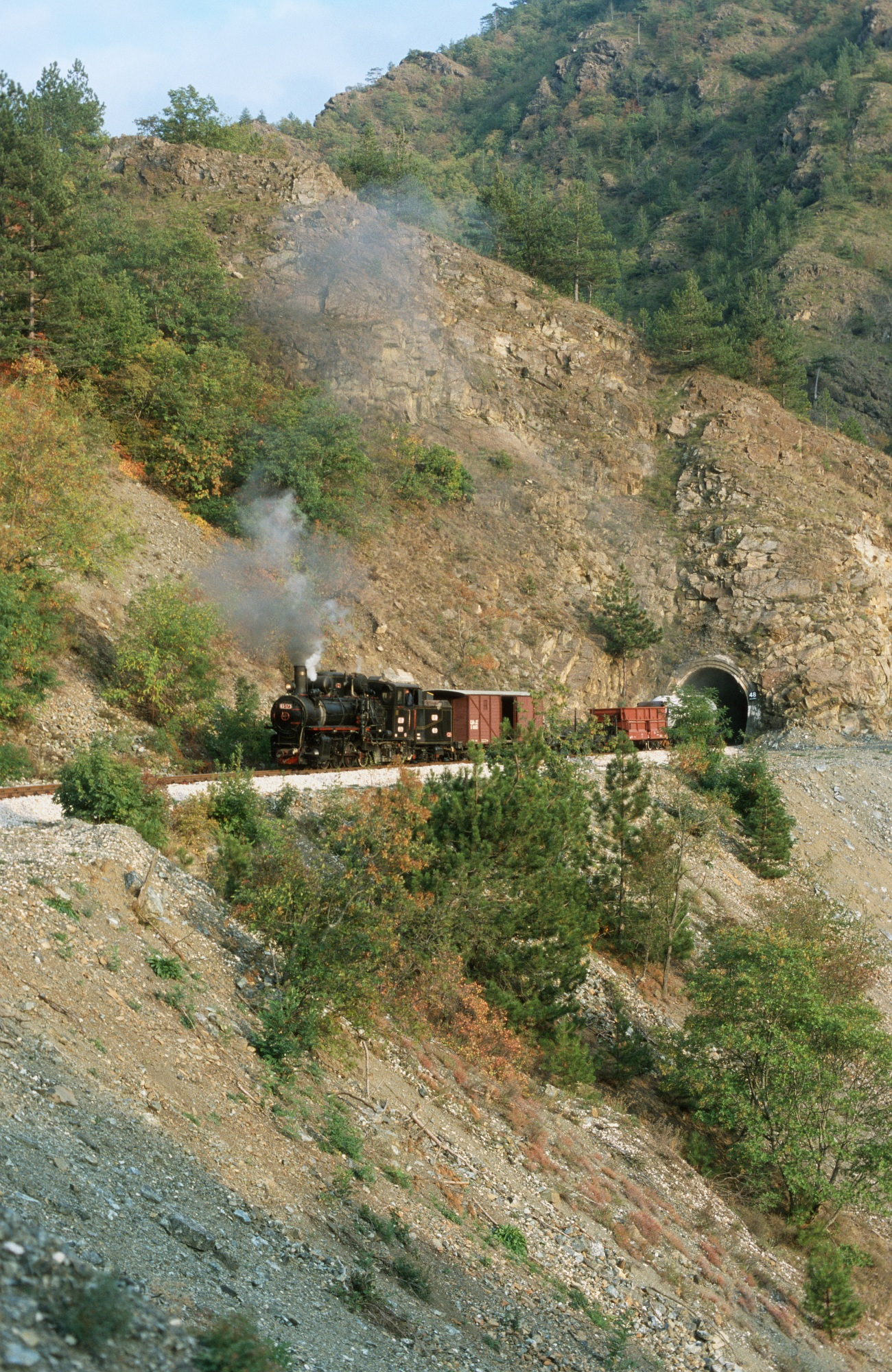 Special goods train for a group of Austrian railway enthusiasts on the Šarganska osmica heritage railway in Serbia.